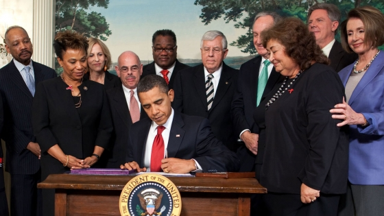 Pictured left to right: Frank Oldham, Jr. (President and CEO, National Association of People with AIDS (NAPWA)), Representative Barbara Lee (D-CA), Julie Scofield (Executive Director, National Alliance of State and Territorial AIDS Directors (NASTAD)), Representative Henry Waxman (D-CA), President Barack Obama, Ernest Hopkins (Policy Chair, Communities Advocating for Emergency AIDS Relief (CAEAR) and Federal Affairs Director, San Francisco AIDS Foundation), Senator Mike Enzi (R-WY), Senator Tom Harkin (D-IA), Jeanne White-Ginder (Ryan White's mother), Representative Frank Pallone (D-NJ), Speaker Nancy Pelosi (D-CA)